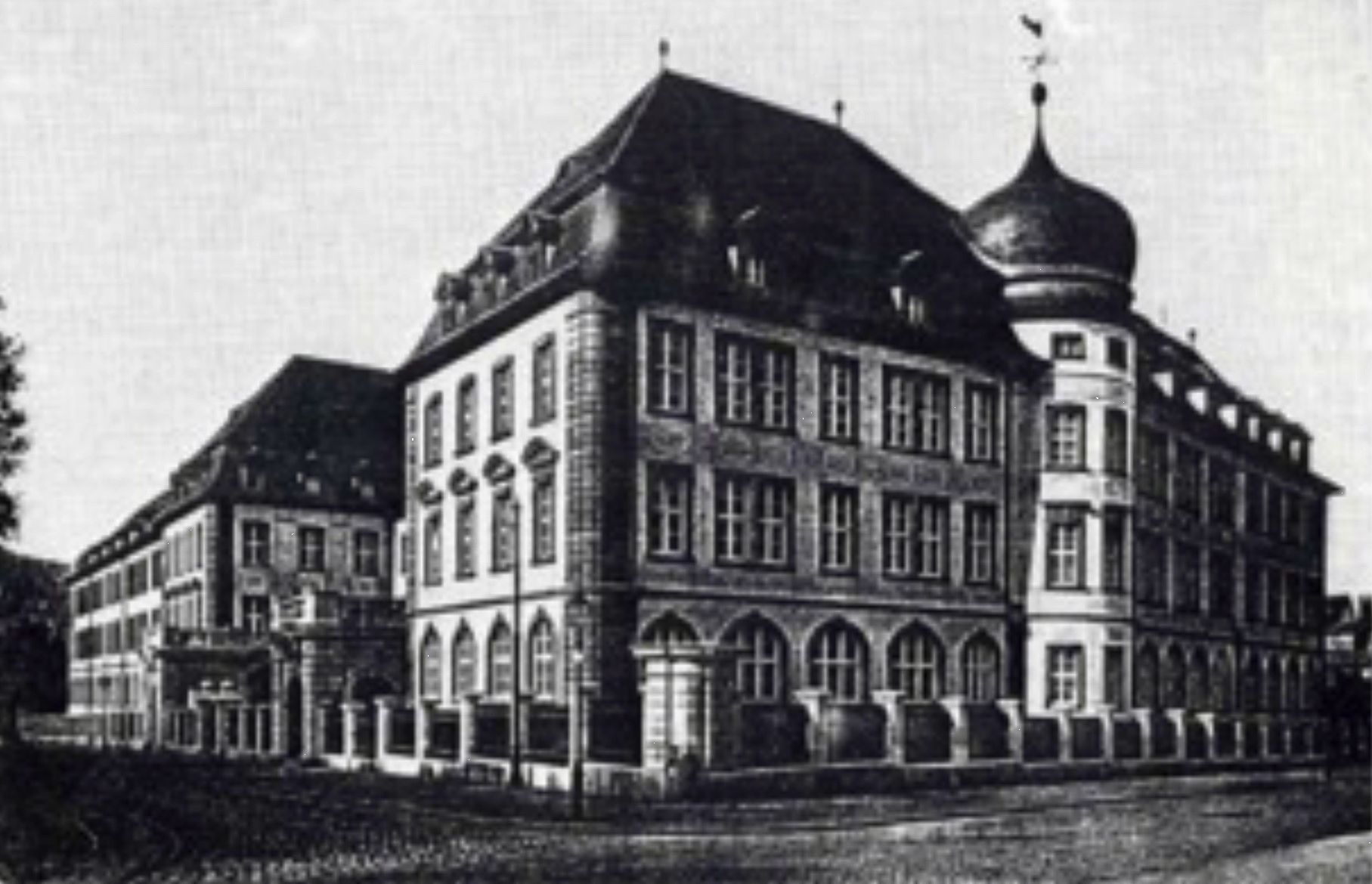 Königliche Kreis-Oberrealschule Würzburg (today Röntgen-Gymnasium Würzburg)